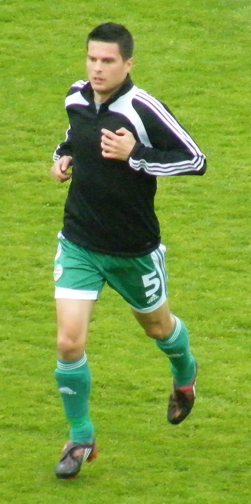 István Bank Hungarian association football player.